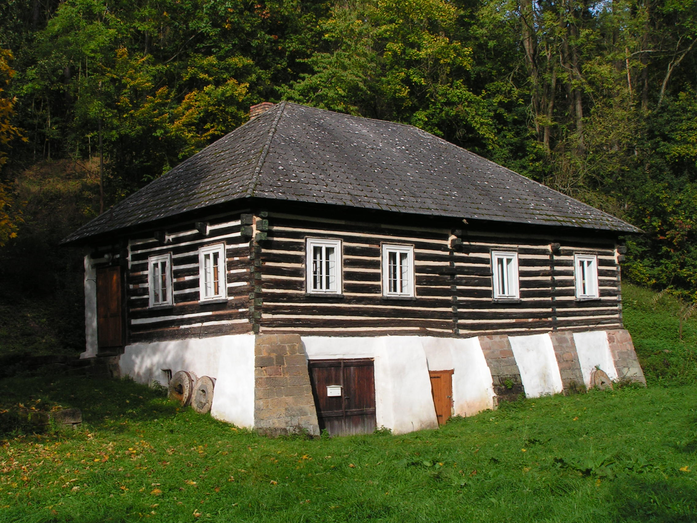 Radim-Tužín (Jičín District). The wooden house - mill from 19. century in Tužín (now is used for recreation)